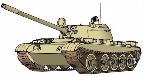 T-55